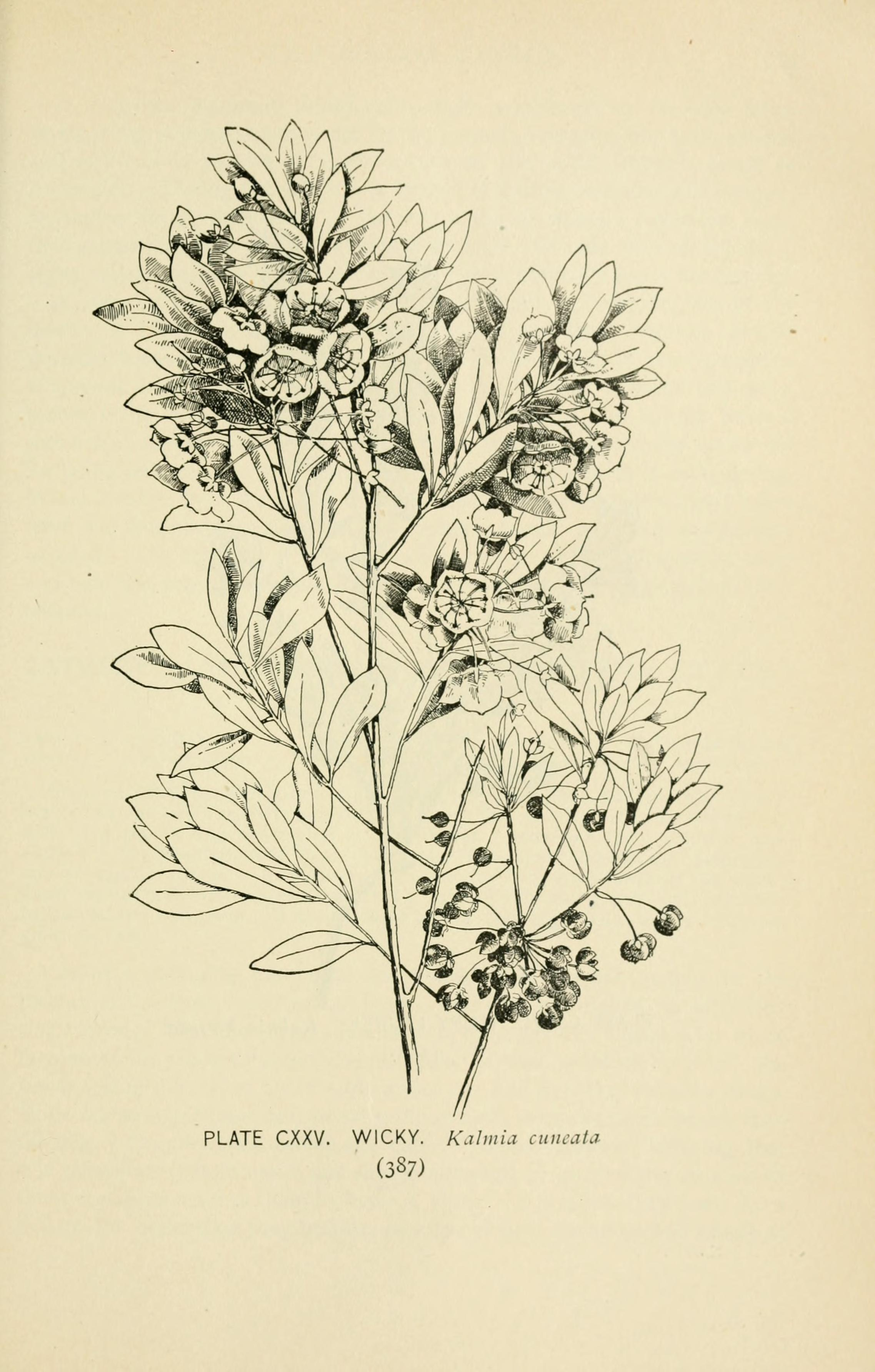 Southern wild flowers and trees, together with shrubs, vines and various forms of growth found through the mountains, the middle district and the low country of the South, by Alice Lounsberry, with plates, vignettes and diagrams by Mrs. E. Rowan, with an introduction by C. D. Beadle.